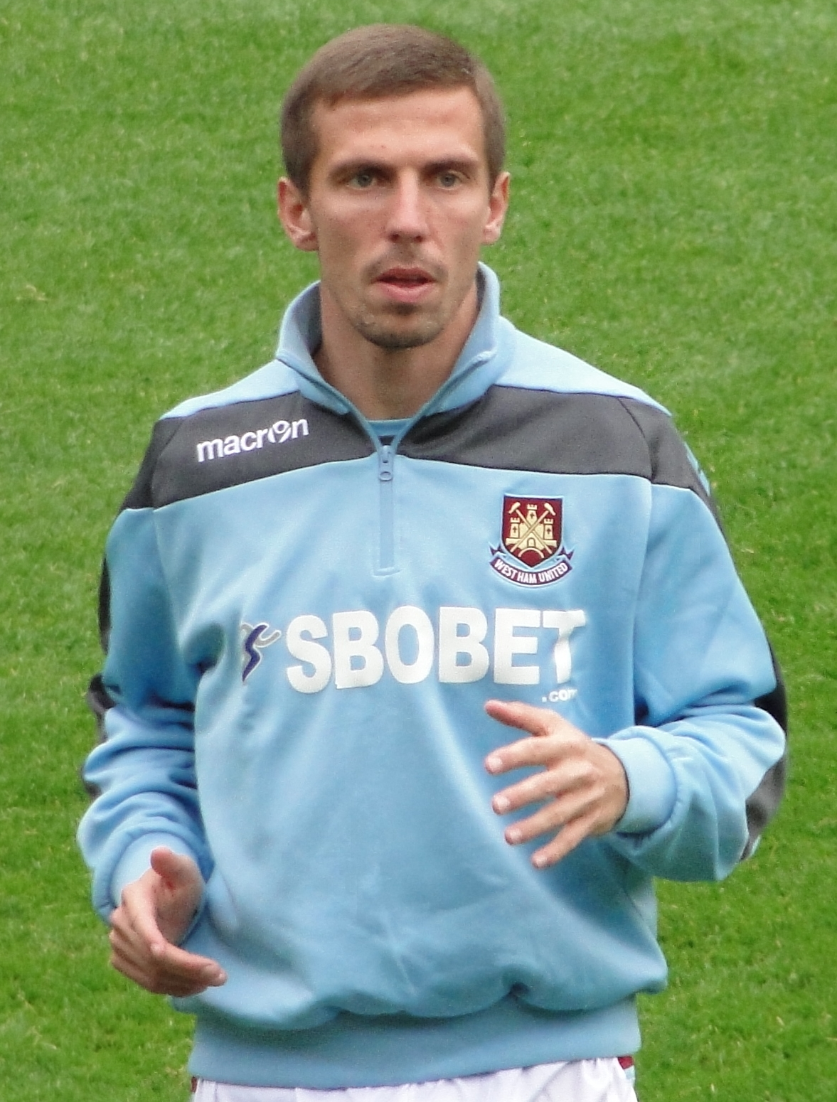 West Ham United player Gary O'Neil warming-up before their Premier League game against Southampton at The Boleyn Ground, October 2012